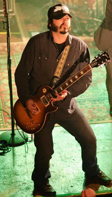 Crop of File:Tgfchadtbig.jpg